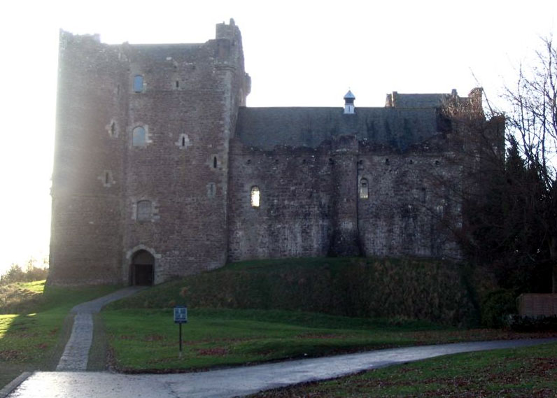 Approach to Doune Castle from the north showing the entrance gateway. photograph taken by mo